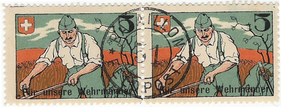 Military mail, stamp WWI, Switzerland